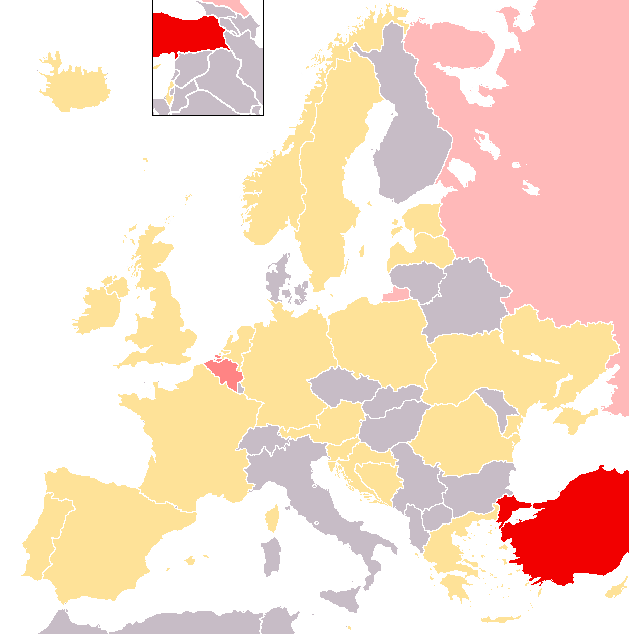 Map of Eurovision 2003